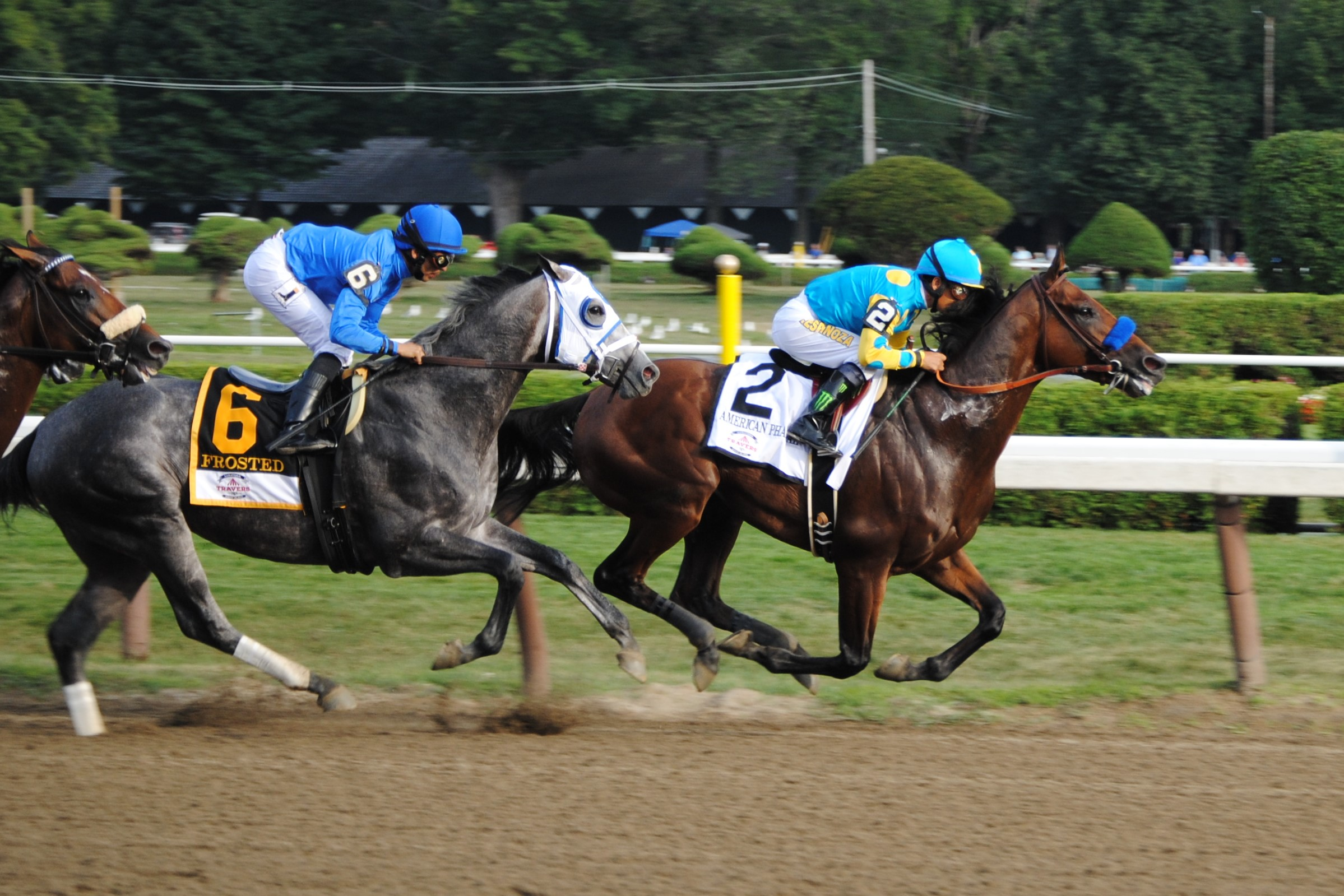 American Pharoah has an early lead in the Travers, but Frosted would press him hard. 2015 Saratoga